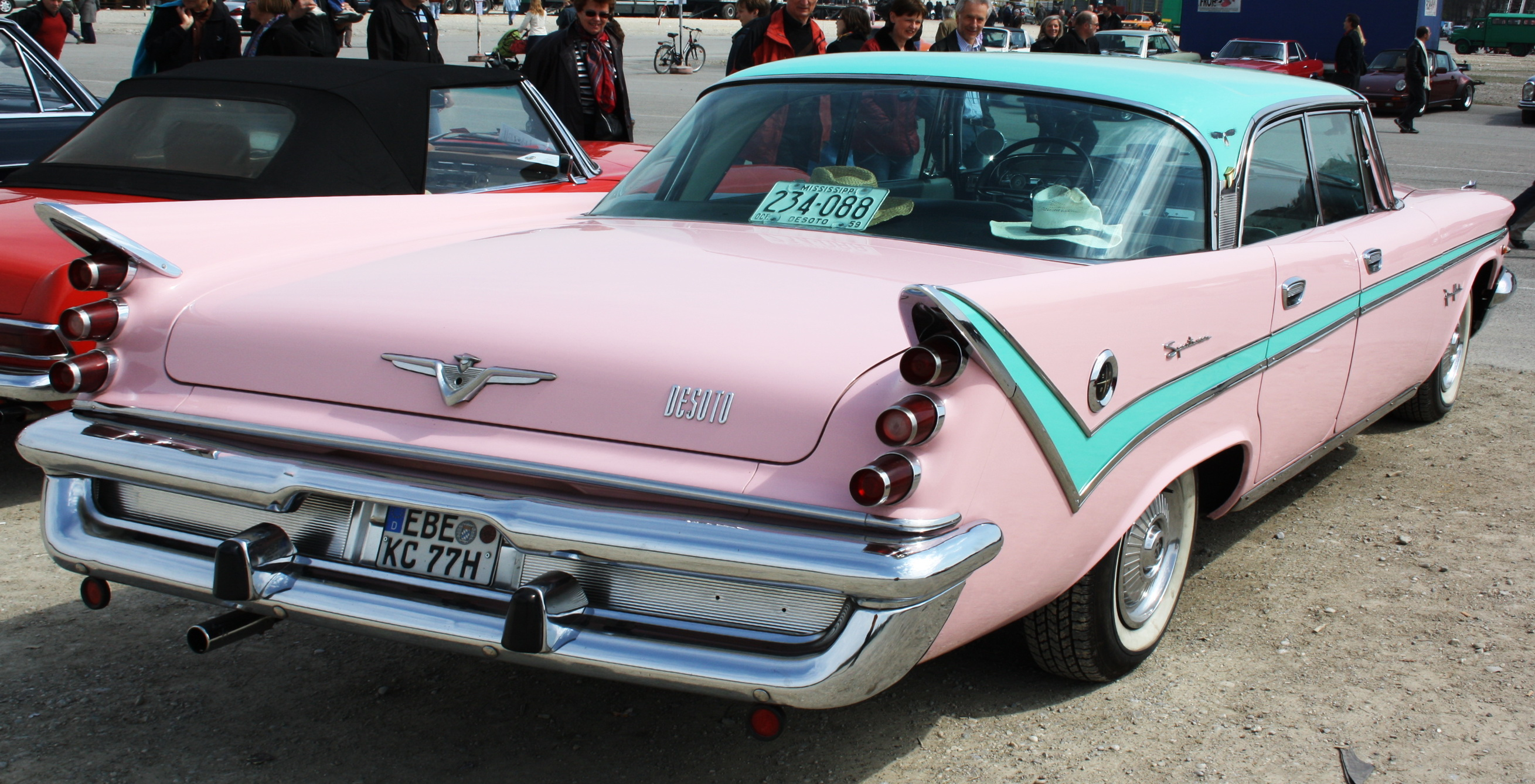 DeSoto fire flite sp.m Year 1959